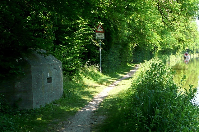 Pillbox alongside the canal The Kennet and Avon Canal was designated as a line of defence during WWII. There are pillboxes to be found at every bridge, and at other places. Presumably this one was sited to fill a gap between two bridges that are nearly a mile apart. It is on a bend so has a long view in each direction.